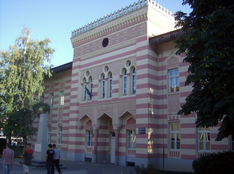 High school in Bugojno, Bosnia and Hercegovina